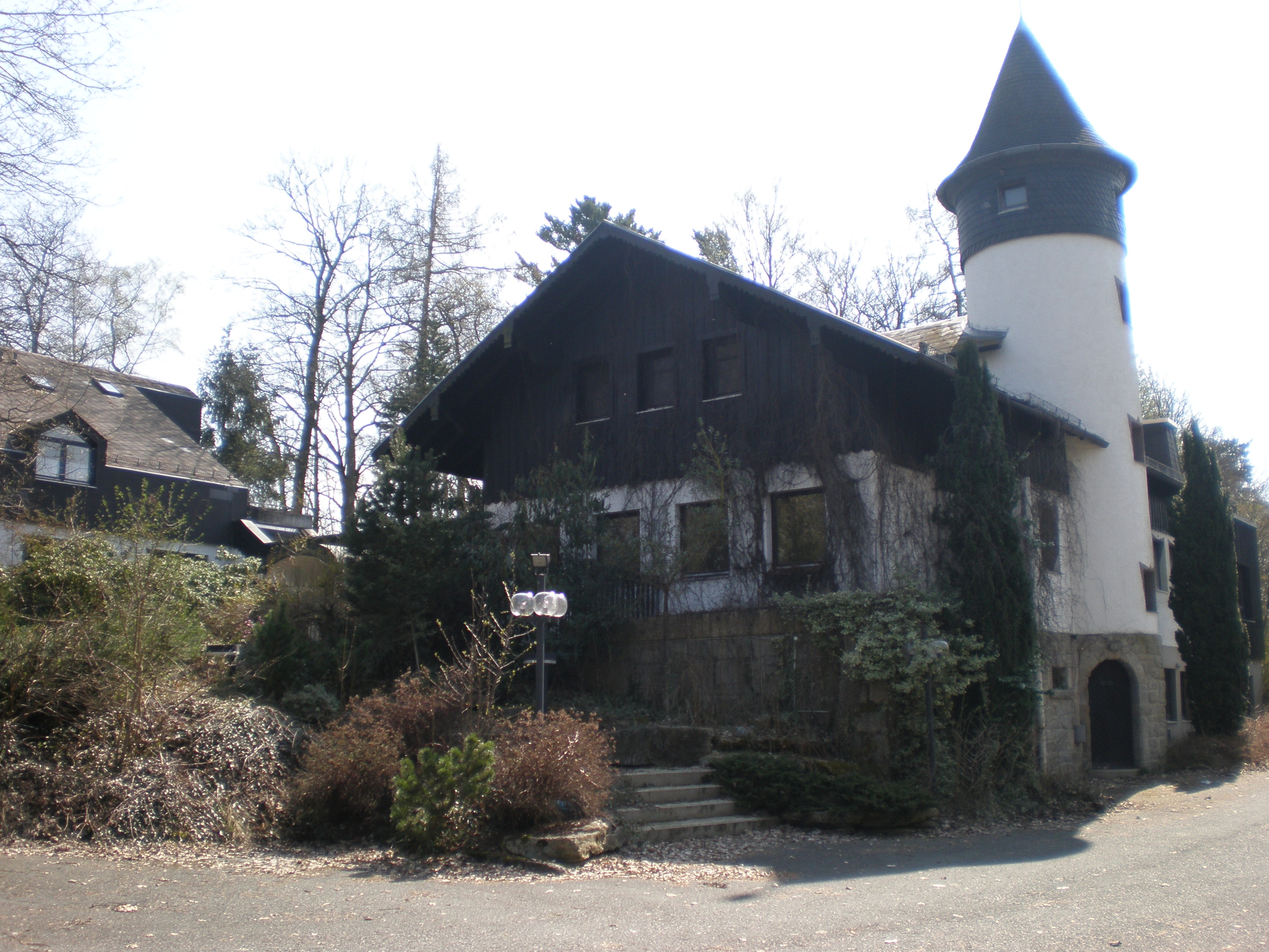 The restaurant "Heimatliebe" near Sparneck